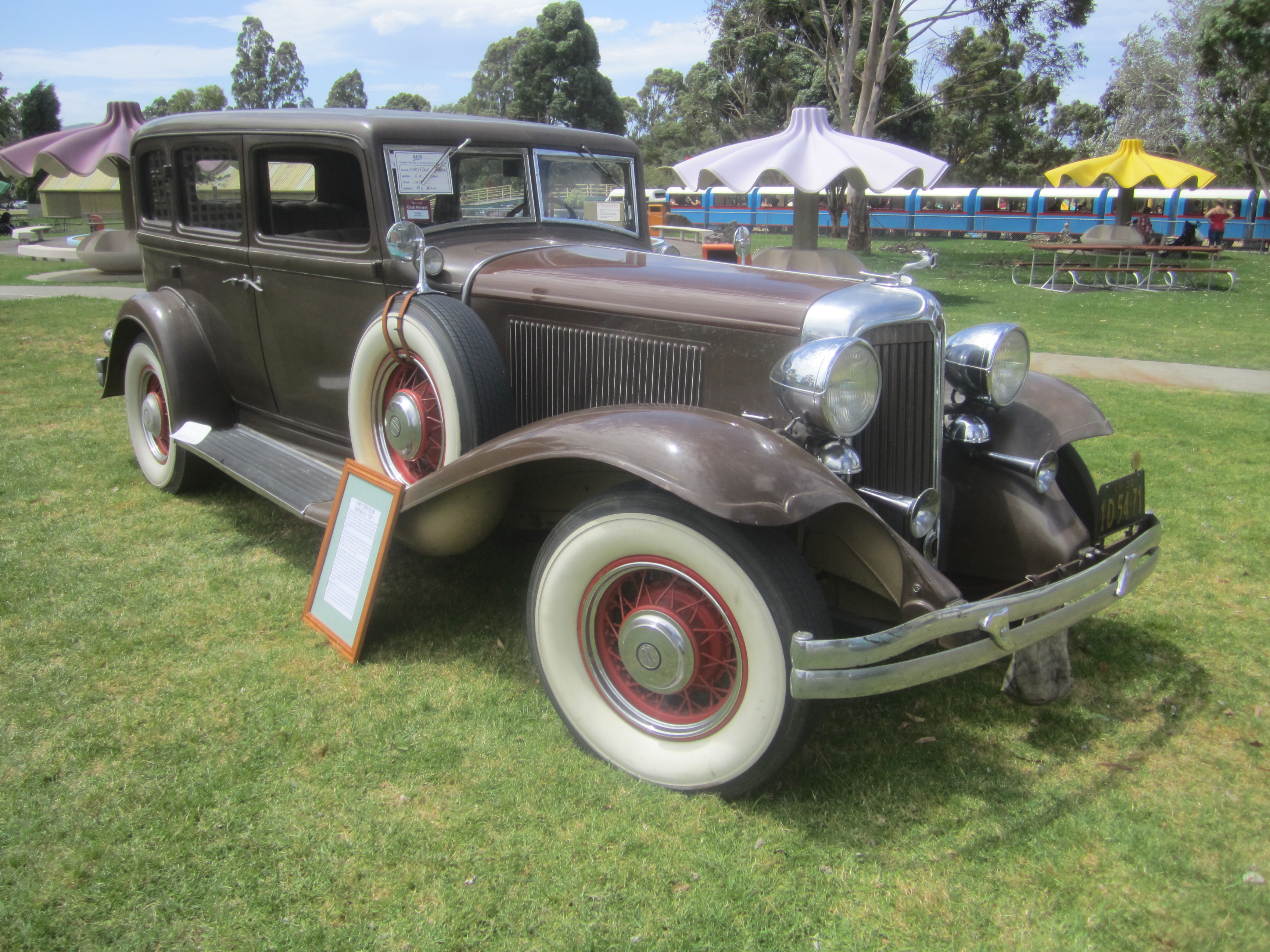 The Imperial was built from 1926-54 and was the top of the line Chrysler. Available in Sedan, Roadster, Coupe and Limo. New for 1932 was a quieter rubber mounted engine, an electric starter and brakes on all 4 wheels This car is in original, unrestored condition. Engine; 385 cu in straight 8